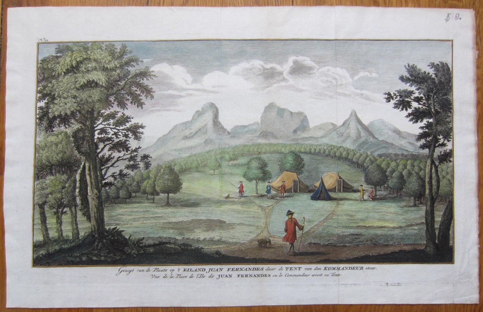 A view of the commondores tent at the Island of Juan Fernandes.